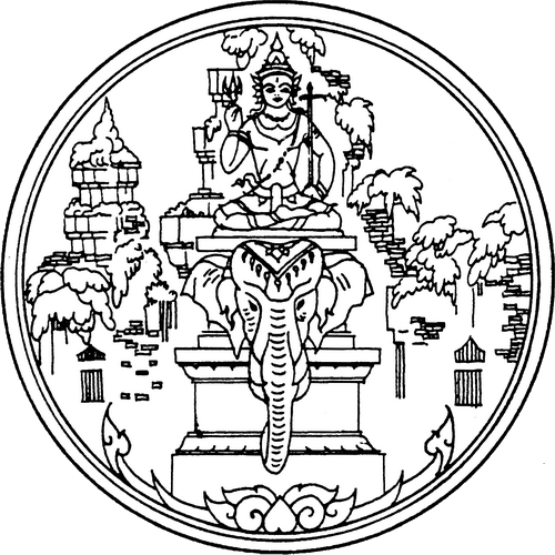 Provincial seal of Surin province.